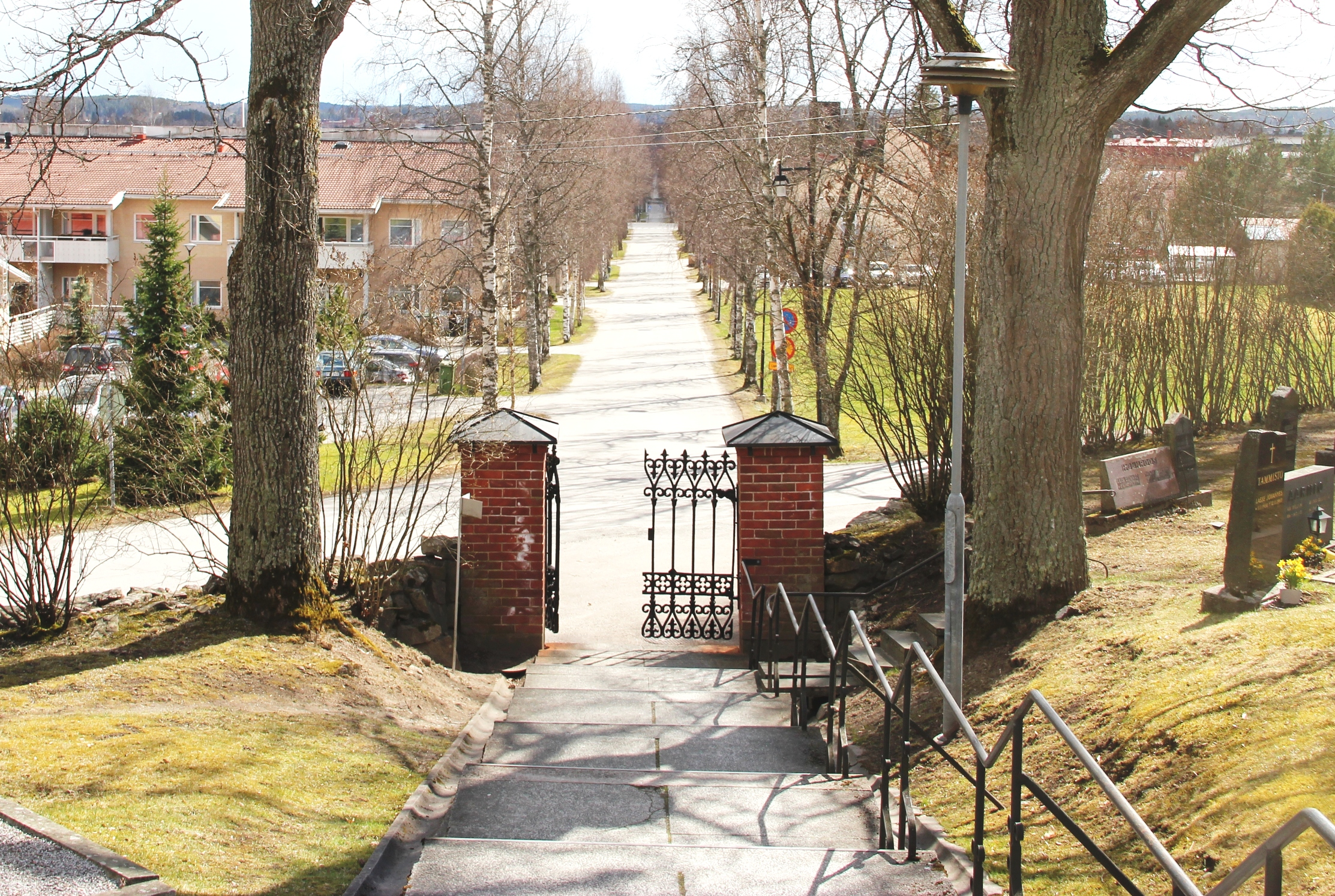 Birch alley from Åminne Estate/Joensuu Estate to Halikko Church, two kilometers.